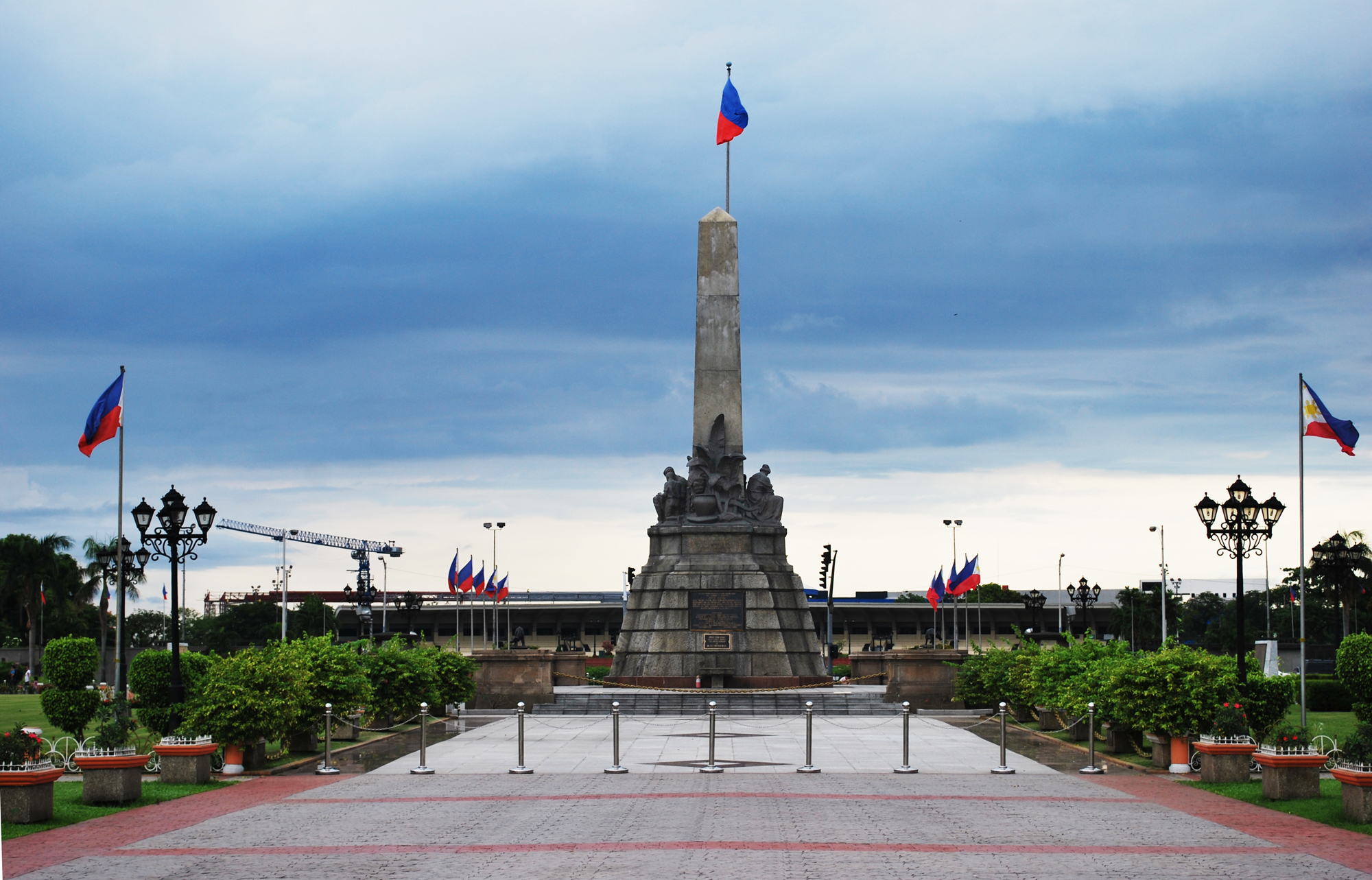 Rizal Park Facing Quirino Grandstand in Manilla, Philippines